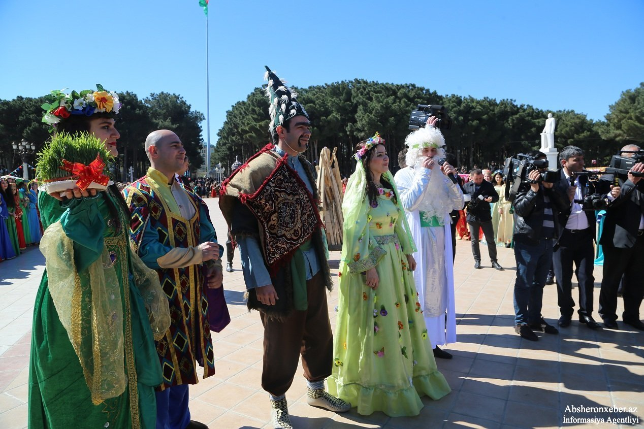 Kosa, Kechel and Bahar Gizi on Nowruz Festival